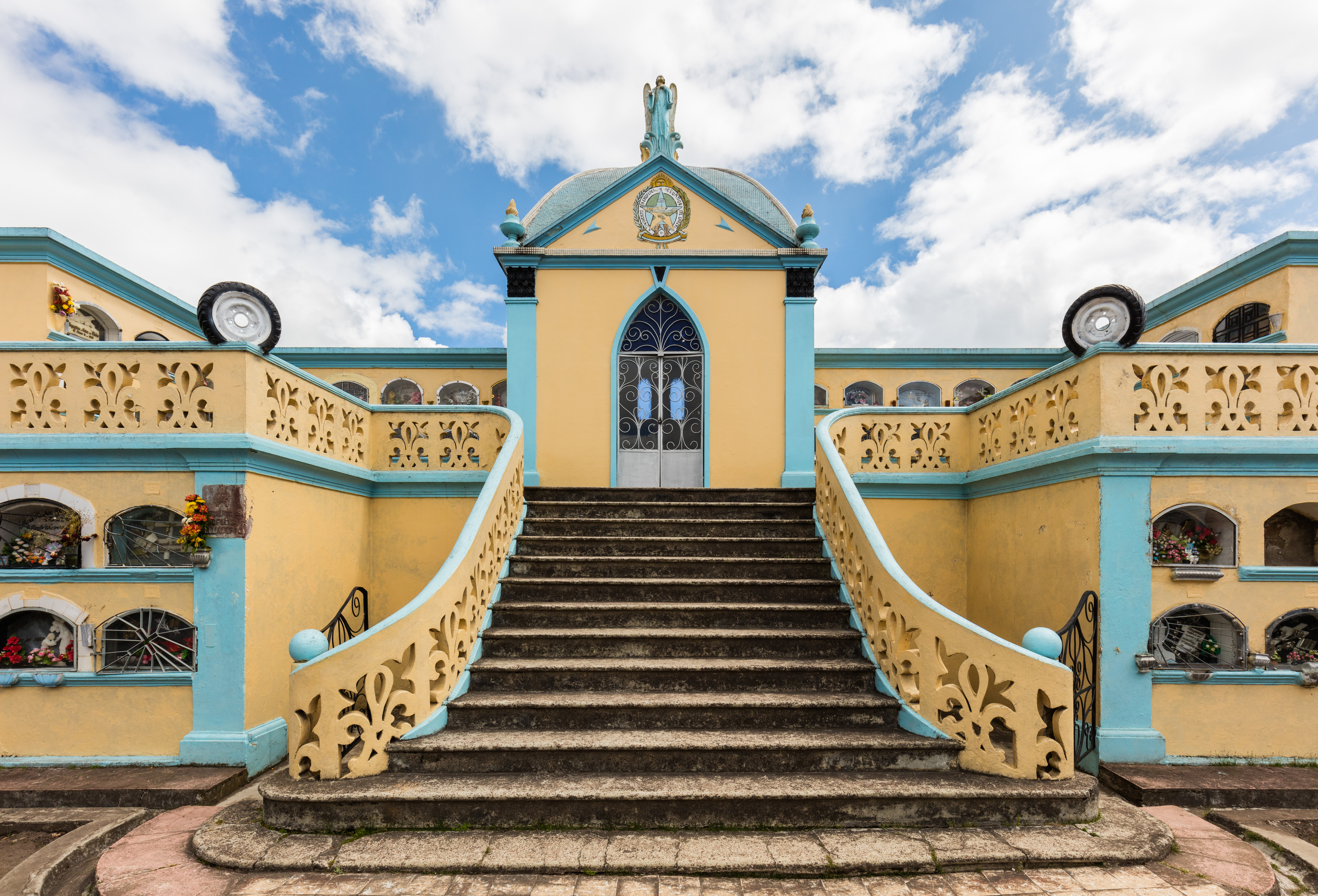 Mausoleum dedicated to the drivers "Ecuador" of Carchi in the cemetery of Tulcán, located in the city of Tulcán, capital of the Carchi Province, northern Ecuador. The cemetery, with an area of 8 hectares (20 acres), was founded in 1932 to replace the former one that was damaged in the 1923 earthquake. José María Azael Franco Guerrero was, back in 1936, in charge of the city parks, and started topiary works in the Tulcán cemetery. Since then the cemetery park has become internationally popular in the art of topiary, and was renamed in 2007 to cemetery Azael Franco to honour his work.